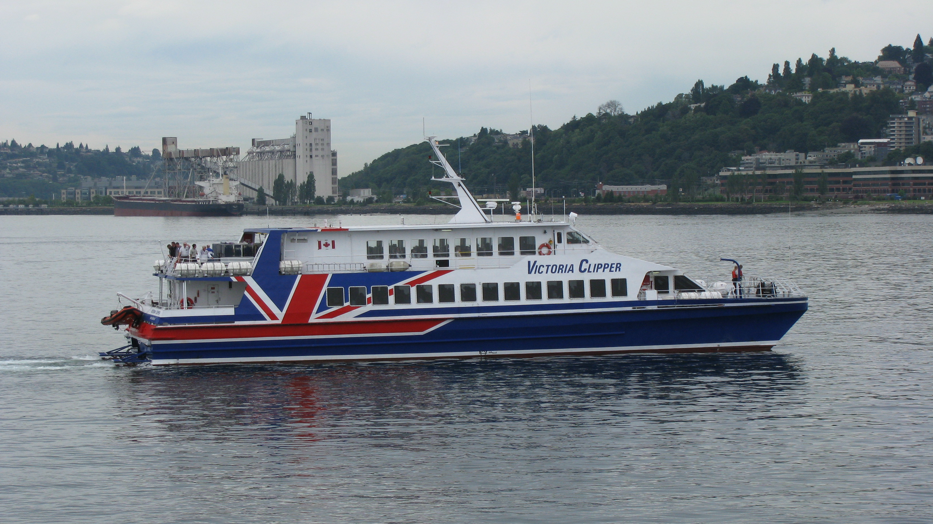 Victoria Clipper outside of Seattle, WA, USA